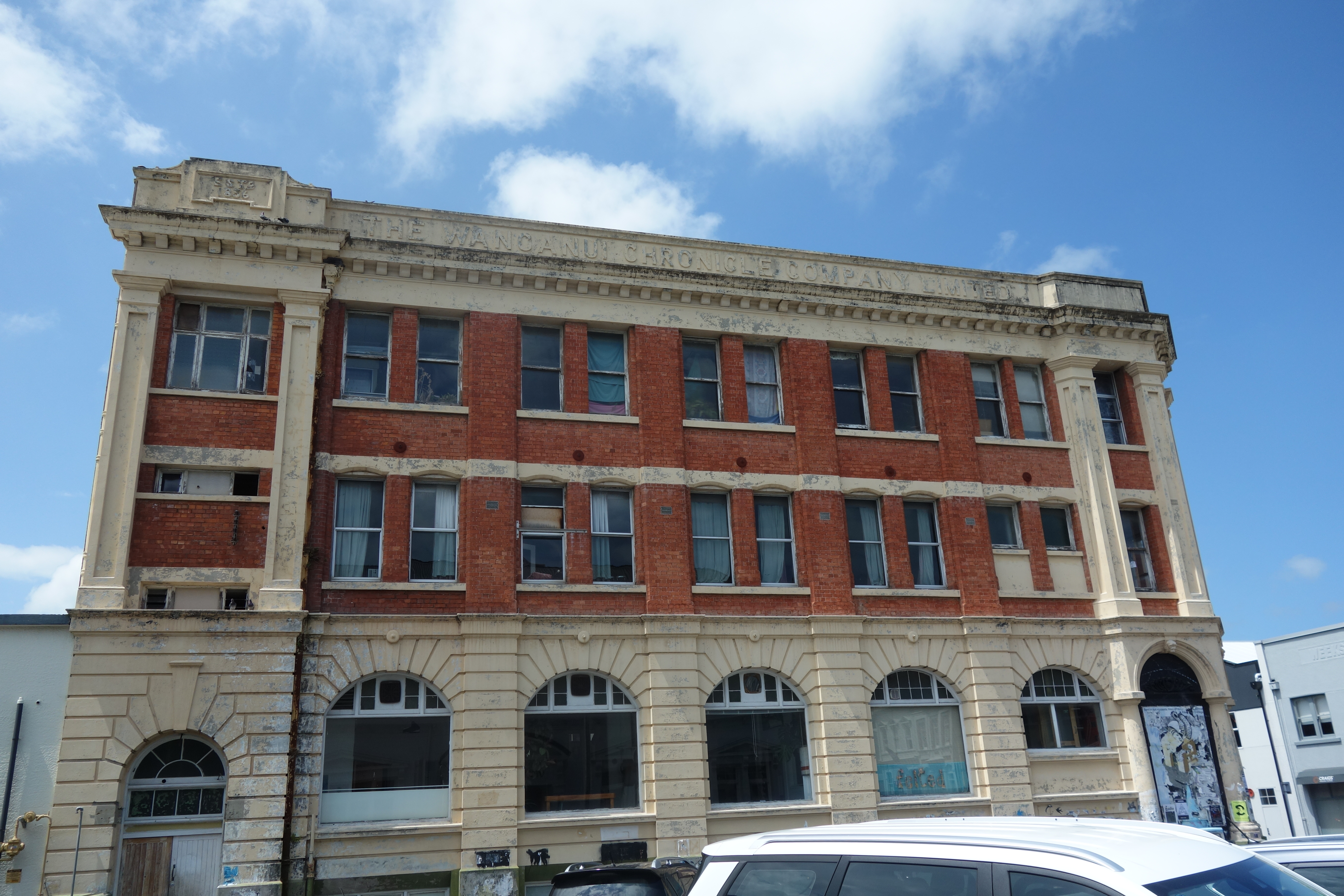 Buildings in Whanganui in November 2018